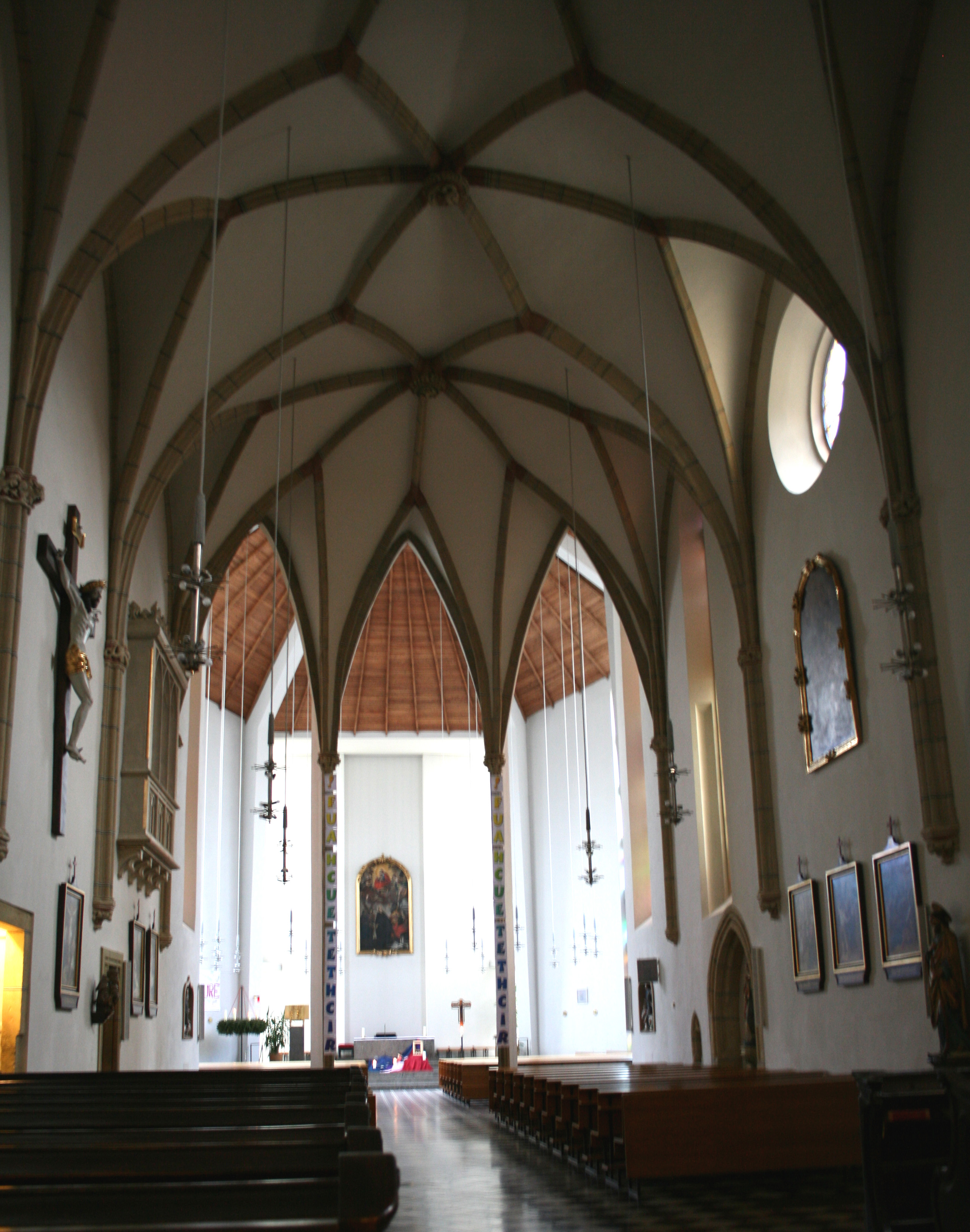 Saint Leonard church in Graz, Austria, Europe